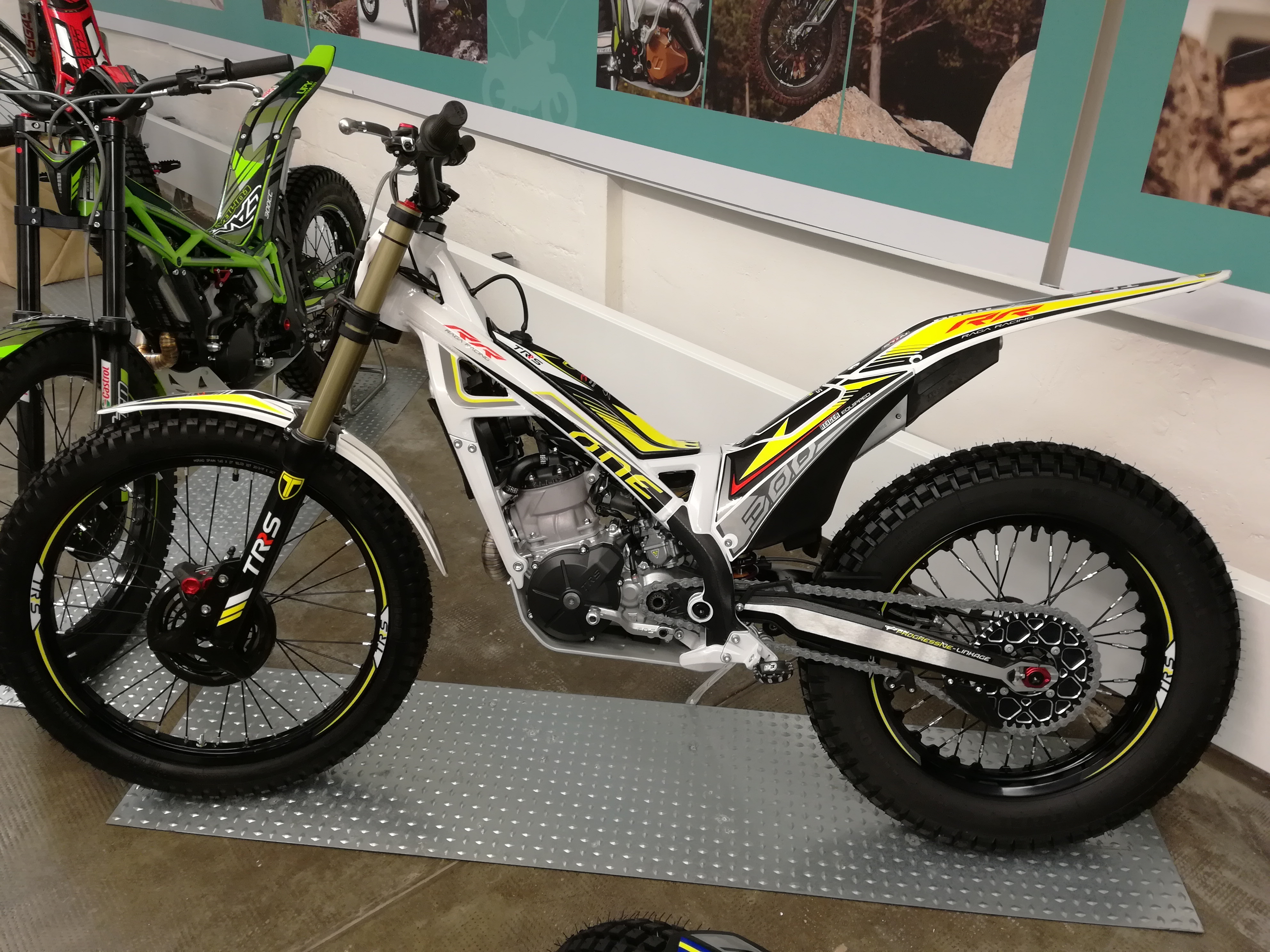 TRS One "Raga Racing" 300cc, 2017